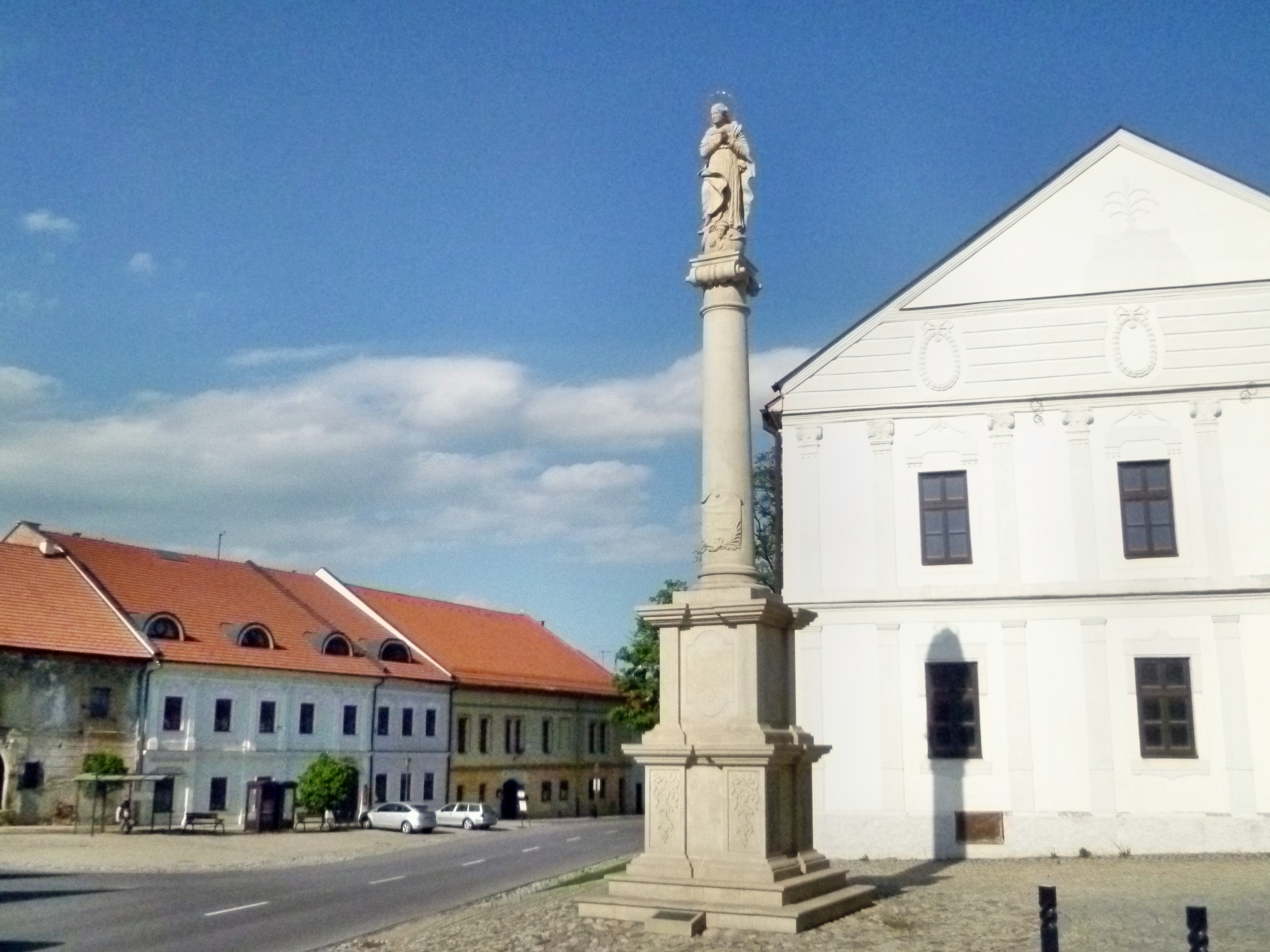 Marian column in front of the Church of St. George, Spišská Sobota, Slovakia